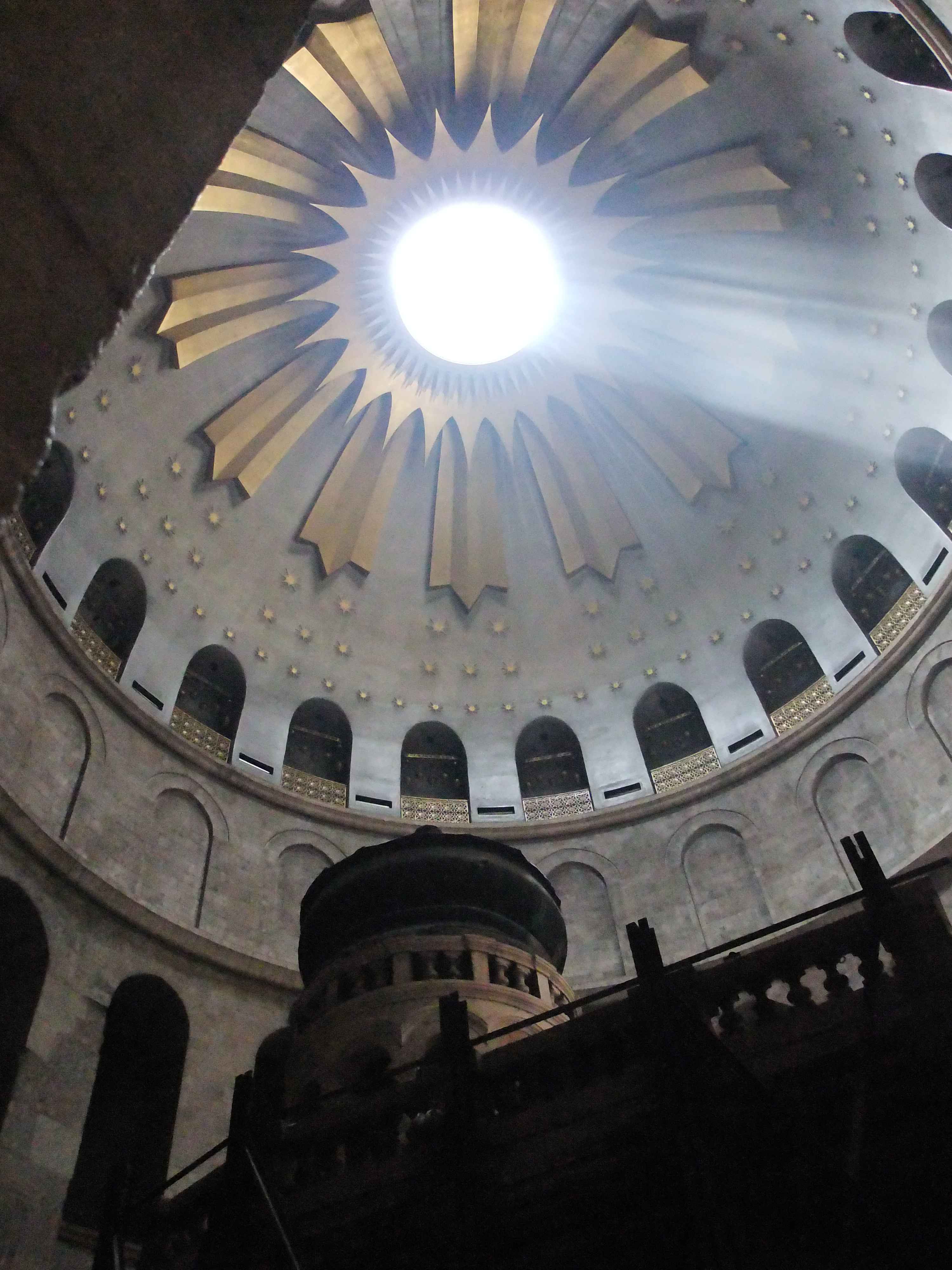 Tomb of Jesus, the old city of Jerusalem